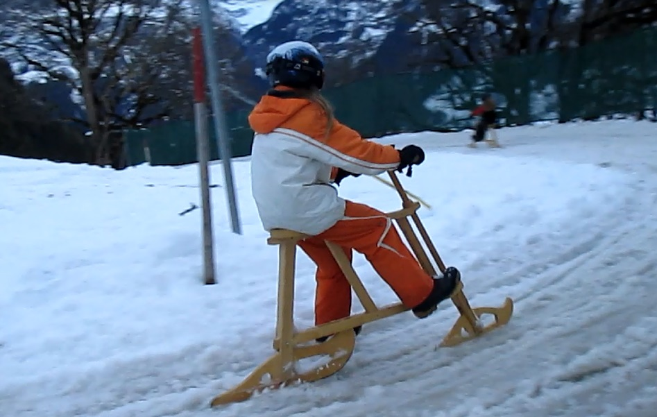 Created 100 years ago in Grindelwald, Switzerland, this snow bike is still exclusively manufactured in Grindelwald.